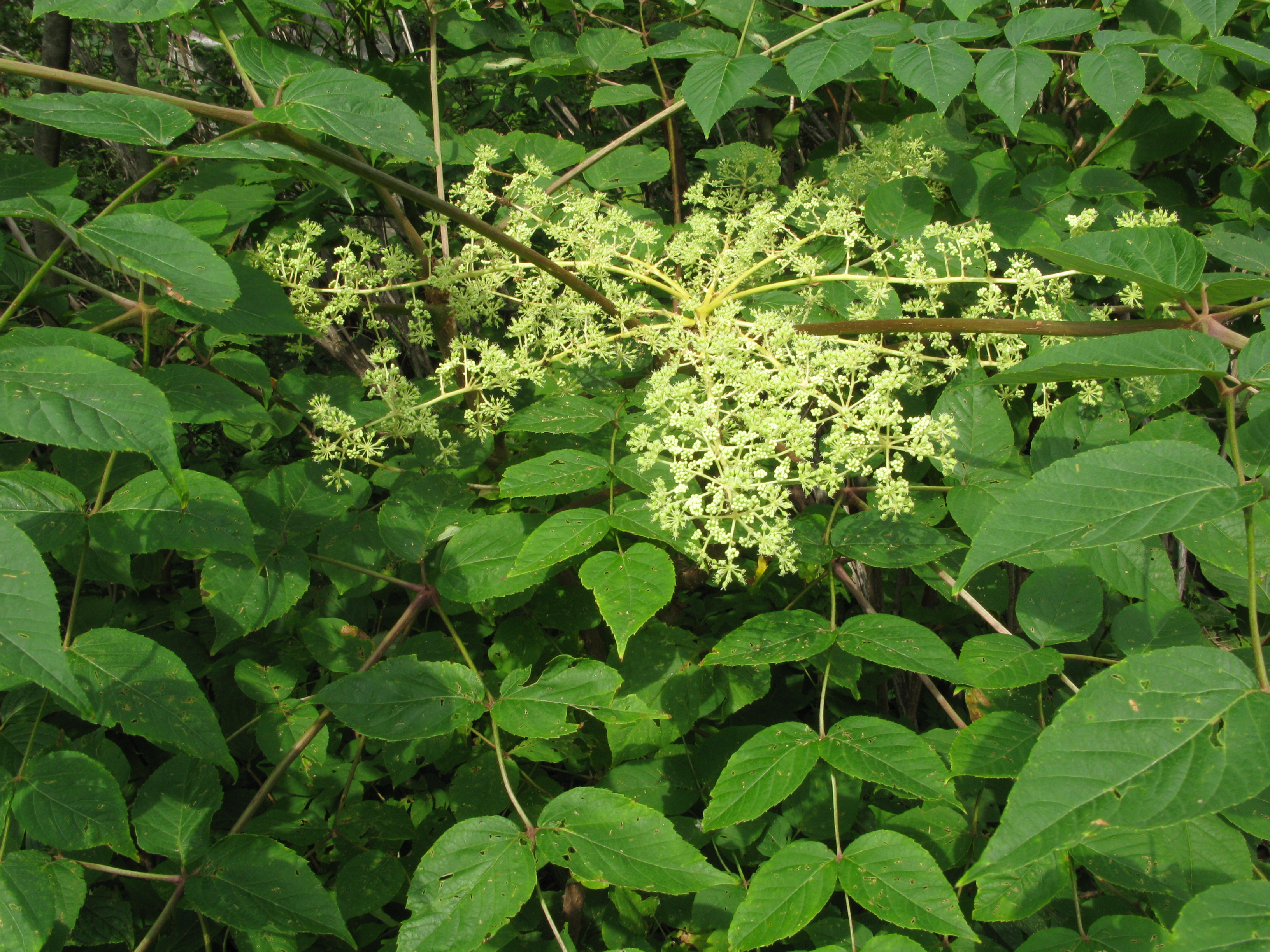 Aralia elata, Syonai area, Yamagata pref., Japan